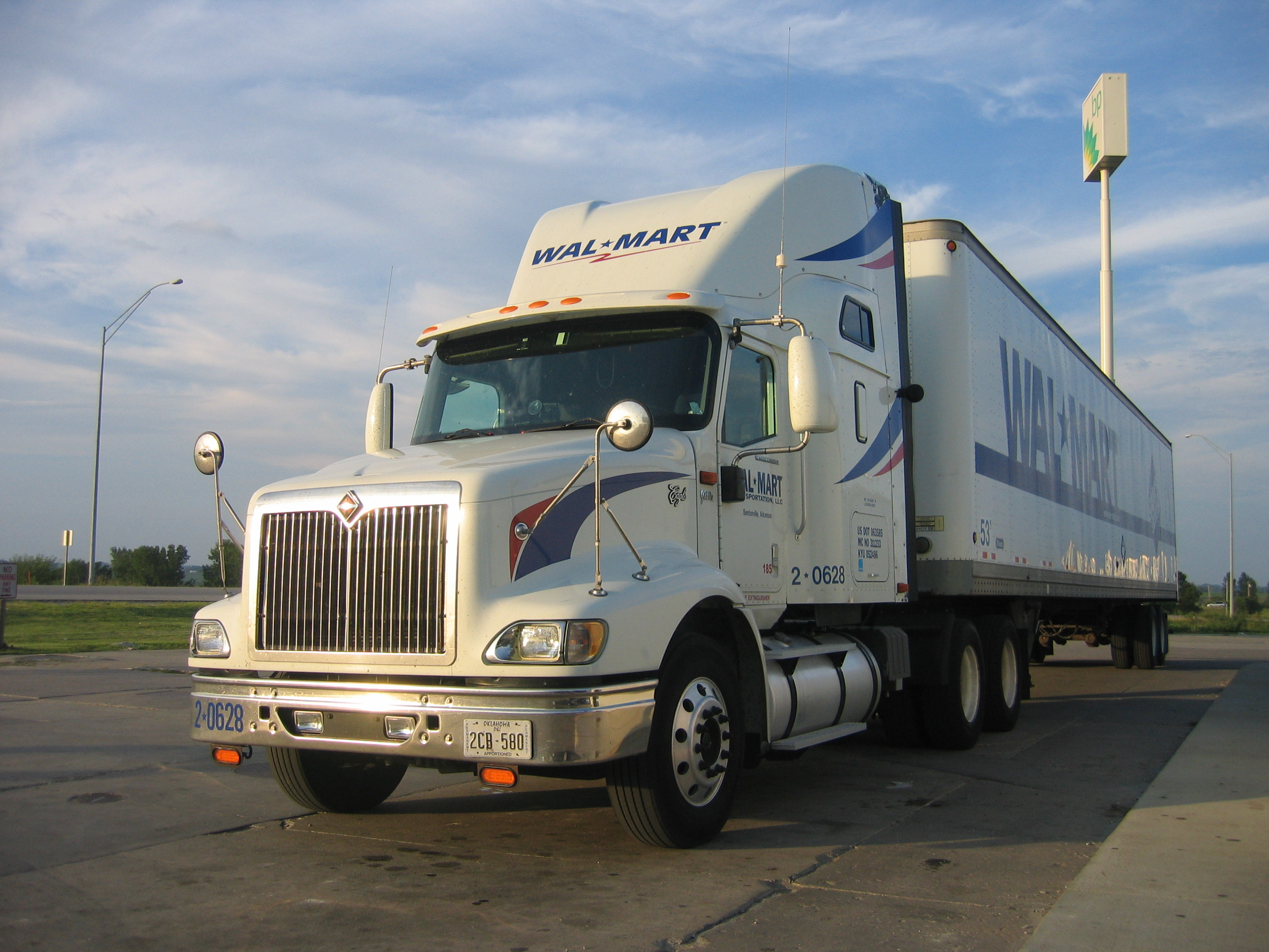 An International Wal-Mart truck at Urbana, Iowa